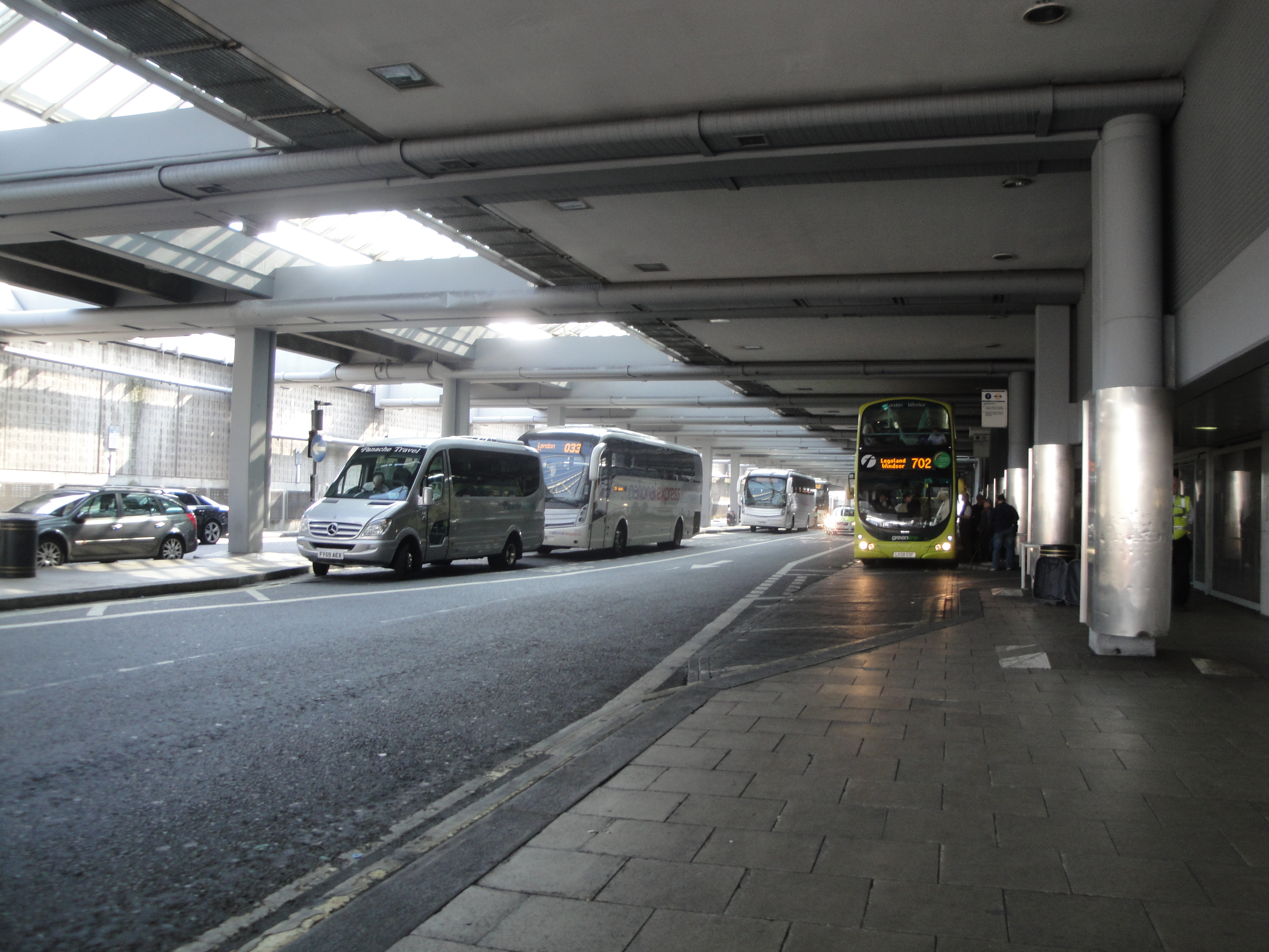 Green Line Coach Station, Westminster (borough), London in March 2012.